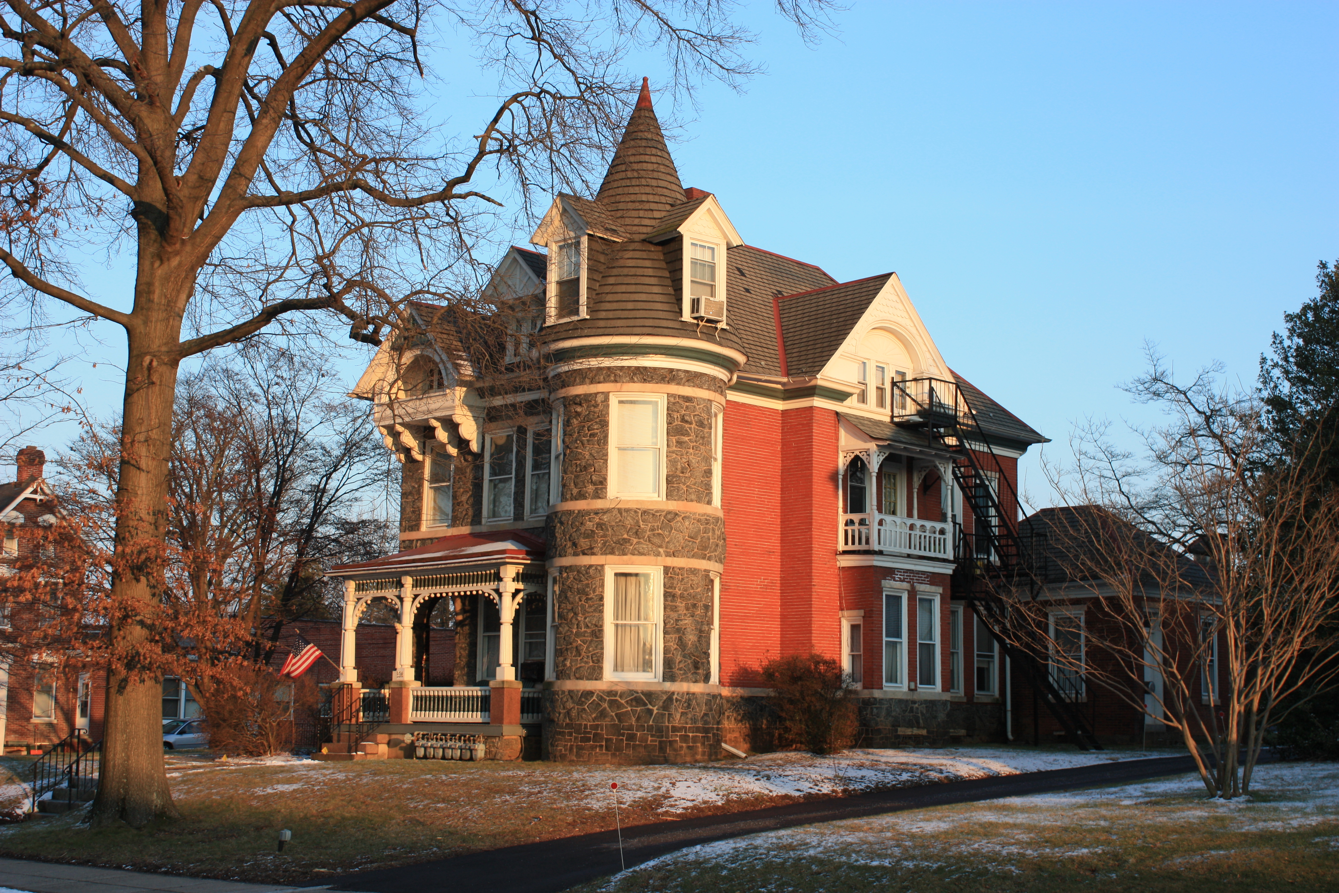 Nice house on Main Street